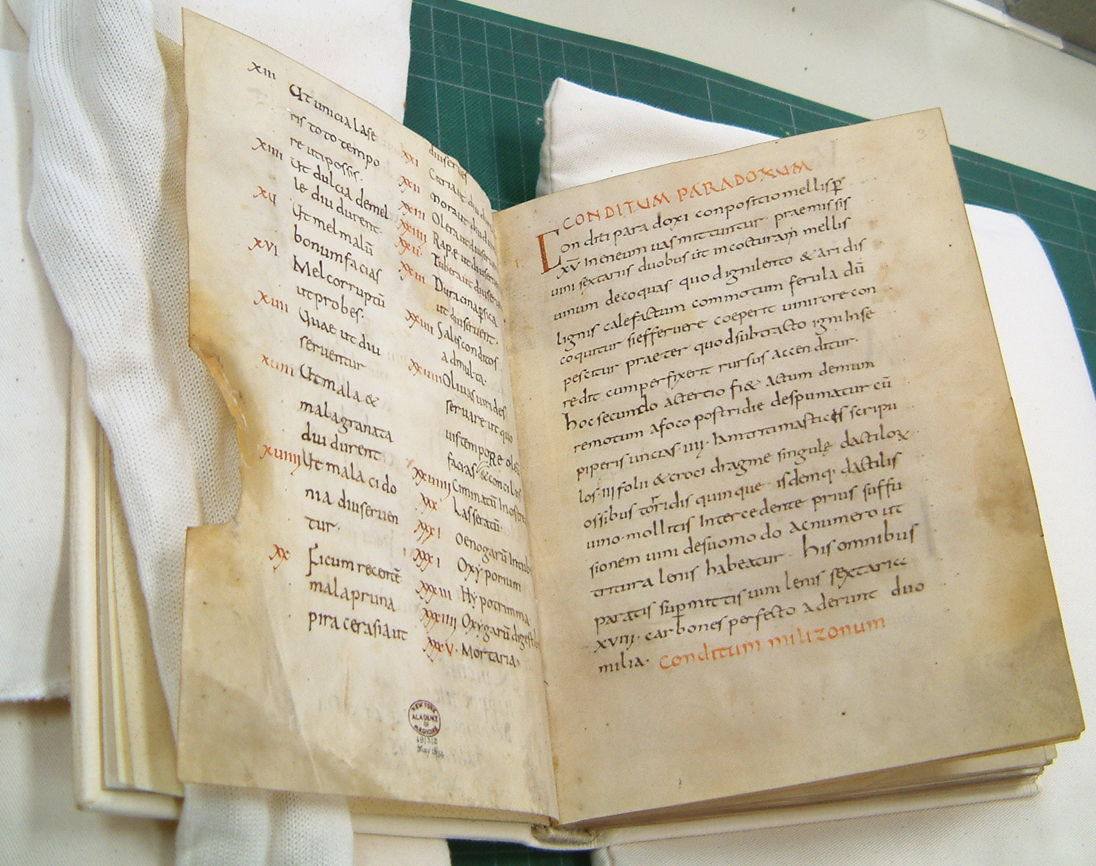 This is a picture from the Apicius handwriting (ca. 900 A.C) of the Fulda monastery in Germany, which was acquired in 1929 by the New York Academy of Medicine.